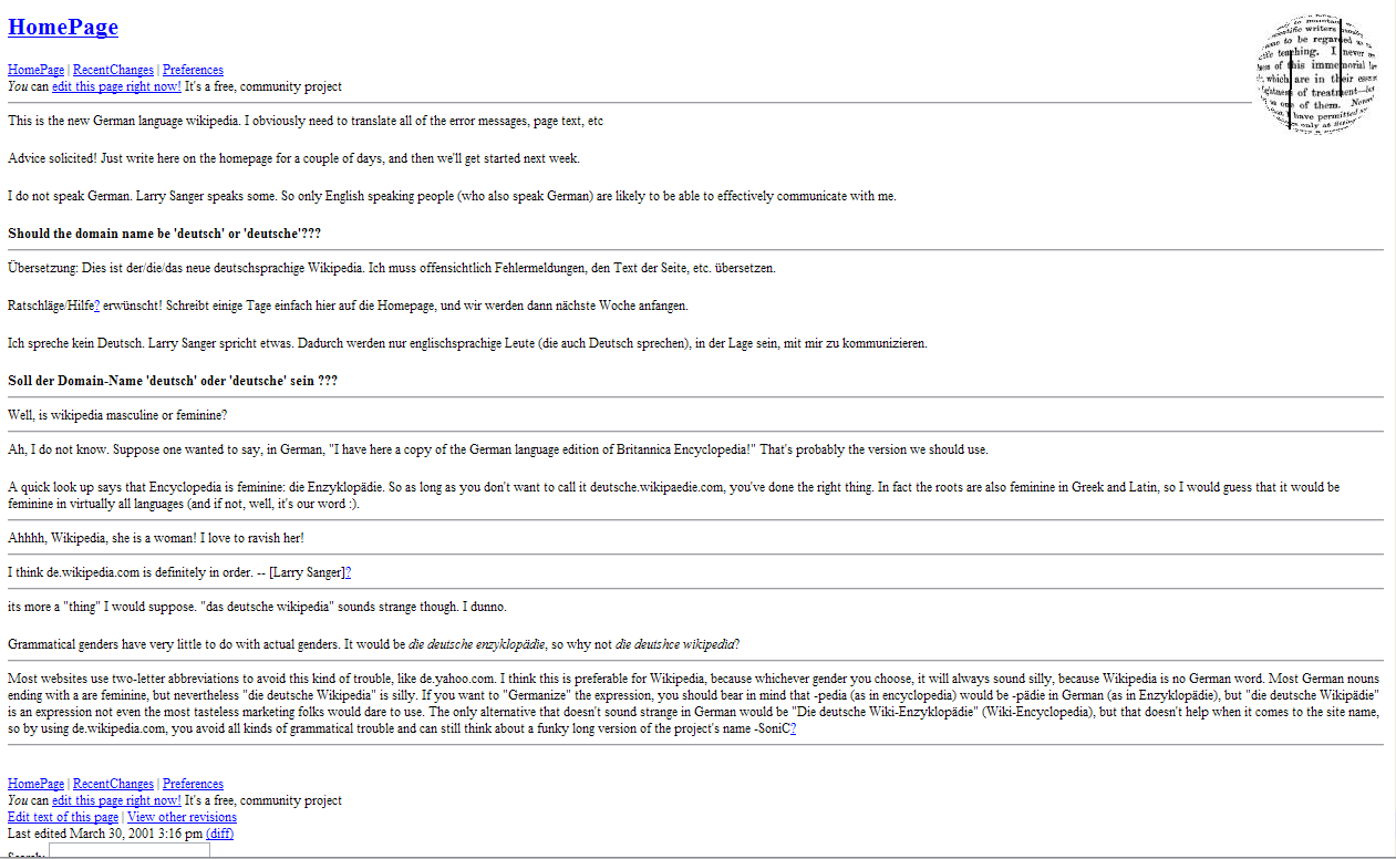 German Wikipediamain-side 2001 March30